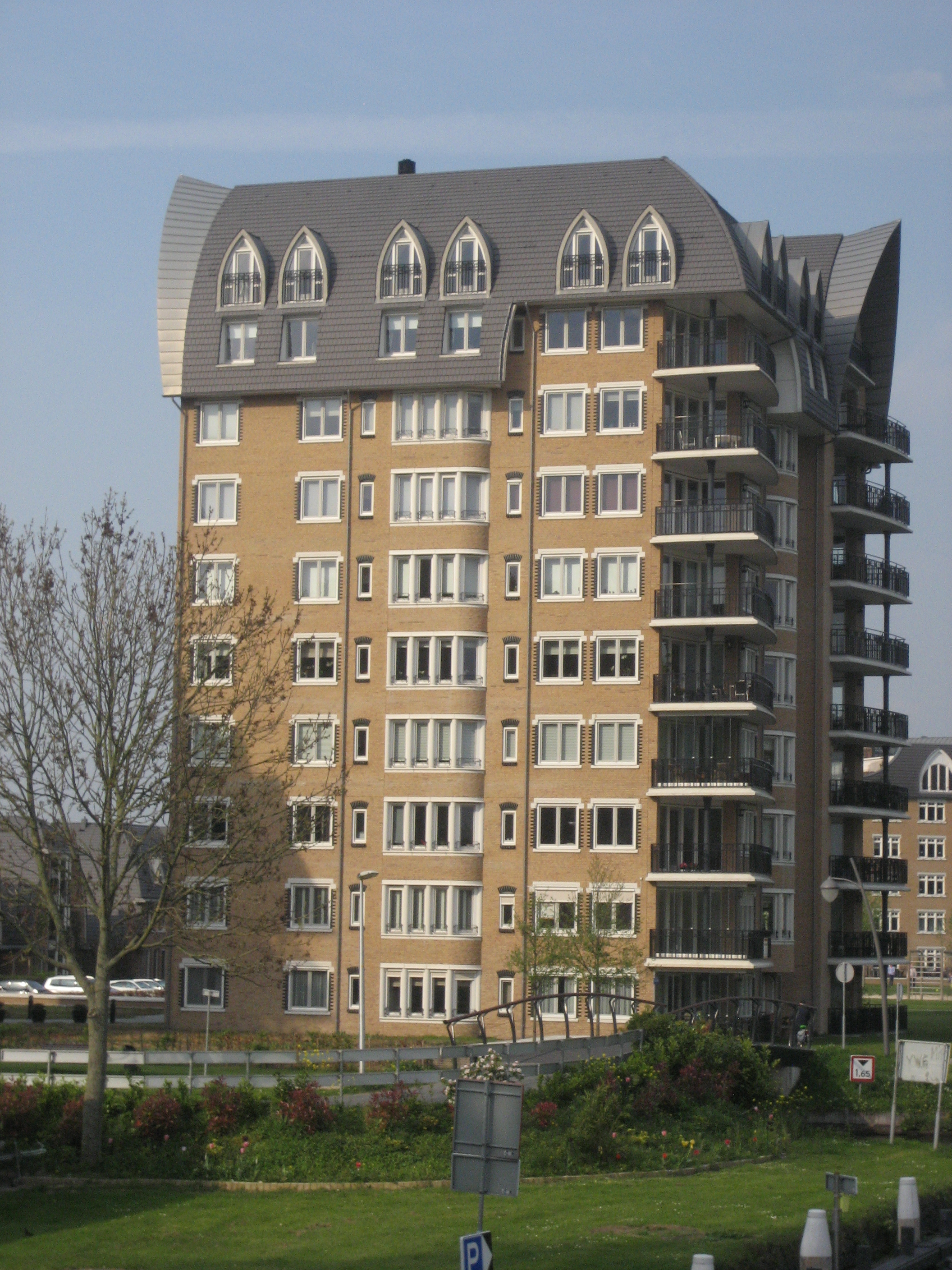 Building appartment in Krimwijk, Voorschoten (The Netherlands)